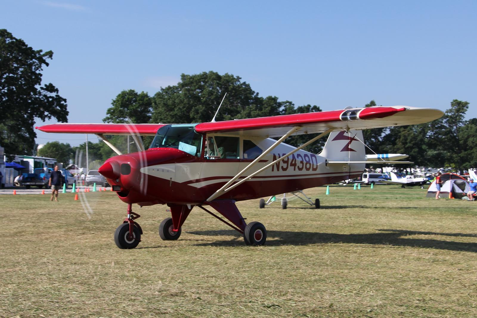 Piper PA-22-160 Tri Pacer (N9438D)